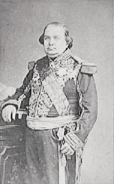 Rigault de Genouilly, circa 1870 photograph.